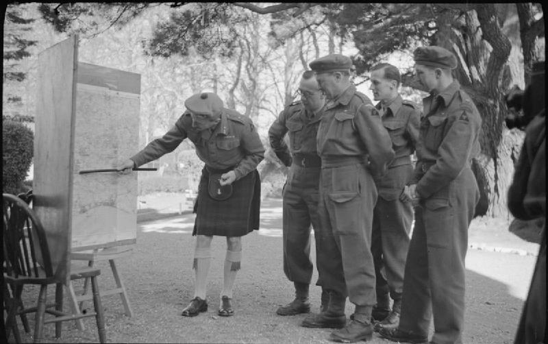 The British Army in the United Kingdom 1939-45 Major-General Thomas Rennie, commanding 3rd Division, studying a map with other officers at Divisional HQ during an exercise, 1 May 1944.